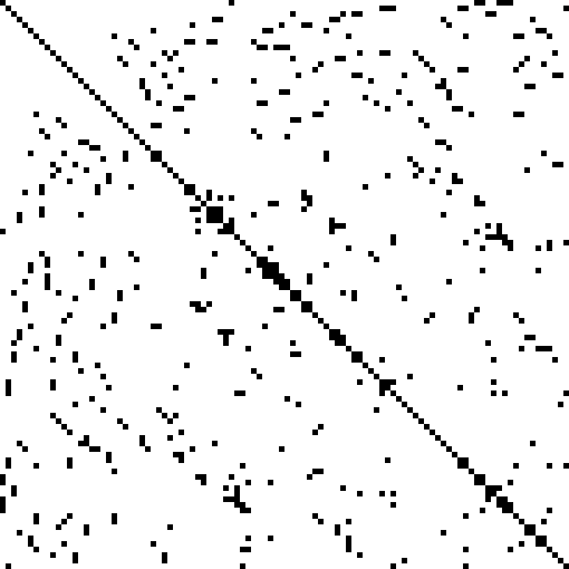 Illustration of the Finite element method, the sparse matrix of the discretized problem.